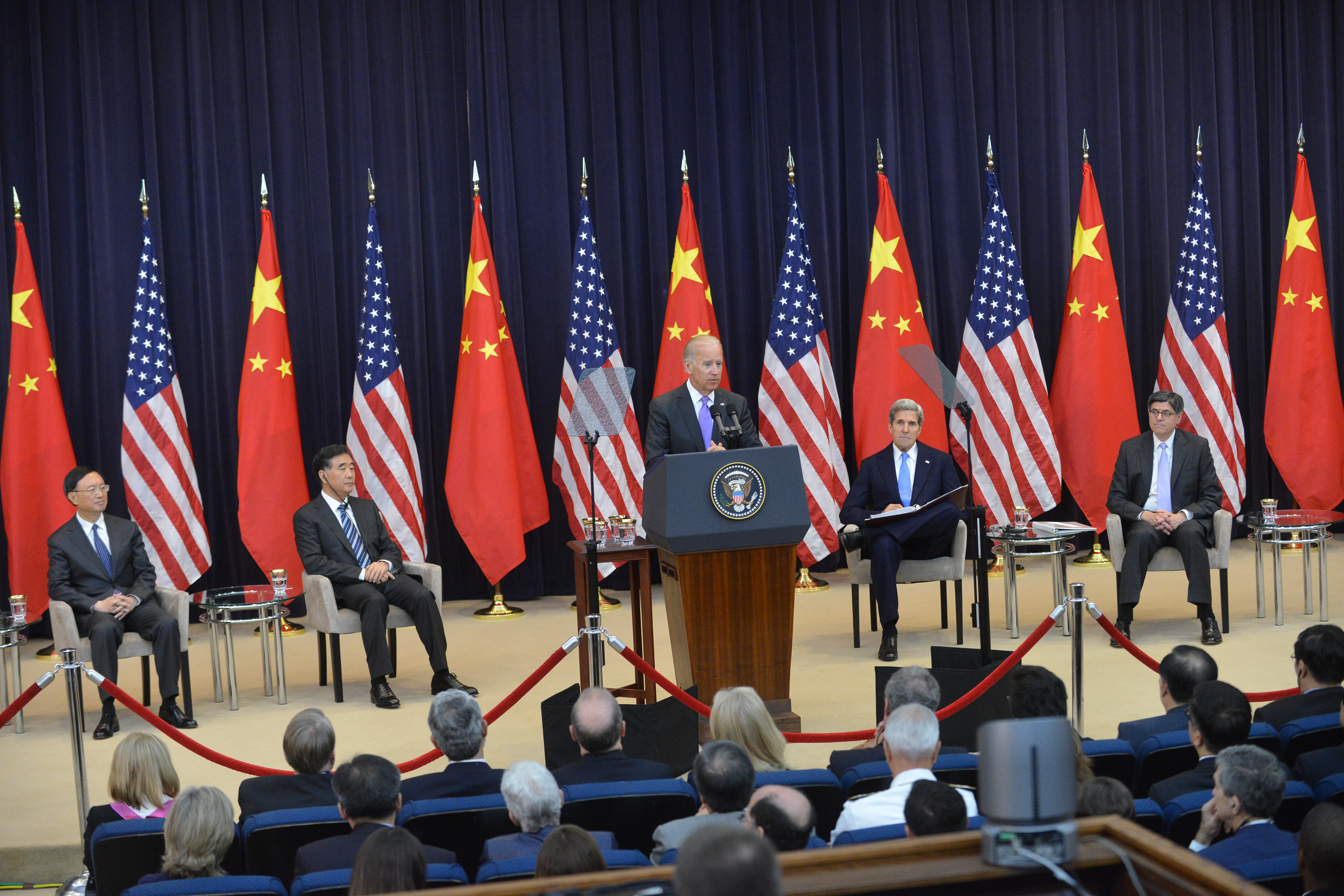 Vice President Joseph Biden delivers remarks at the U.S.-China Strategic and Economic Dialogue Joint Opening Session in the Dean Acheson Auditorium at the U.S. Department of State in Washington, D.C., on July 10, 2013. [State Department photo/ Public Domain]